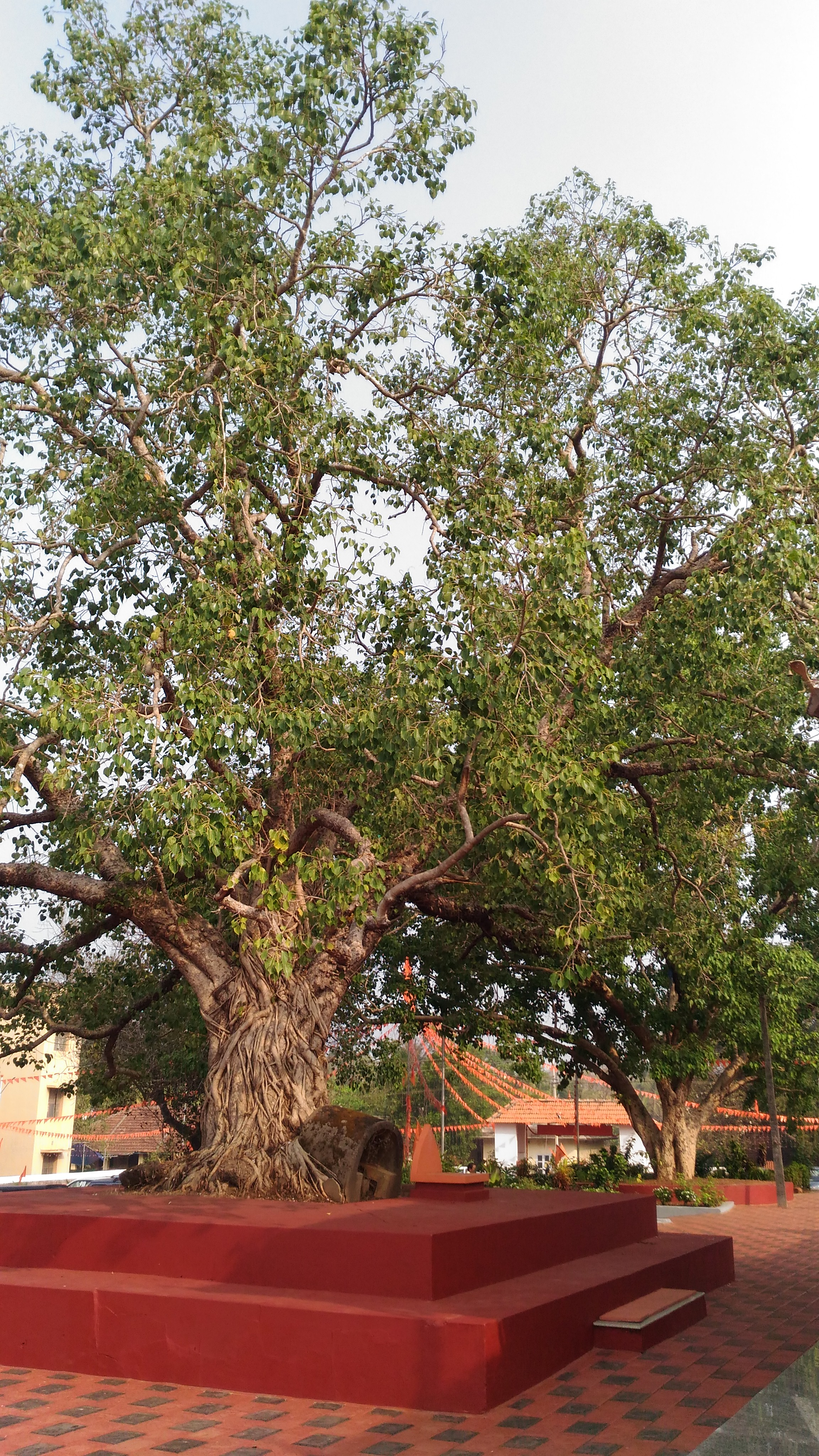 Holy fig tree